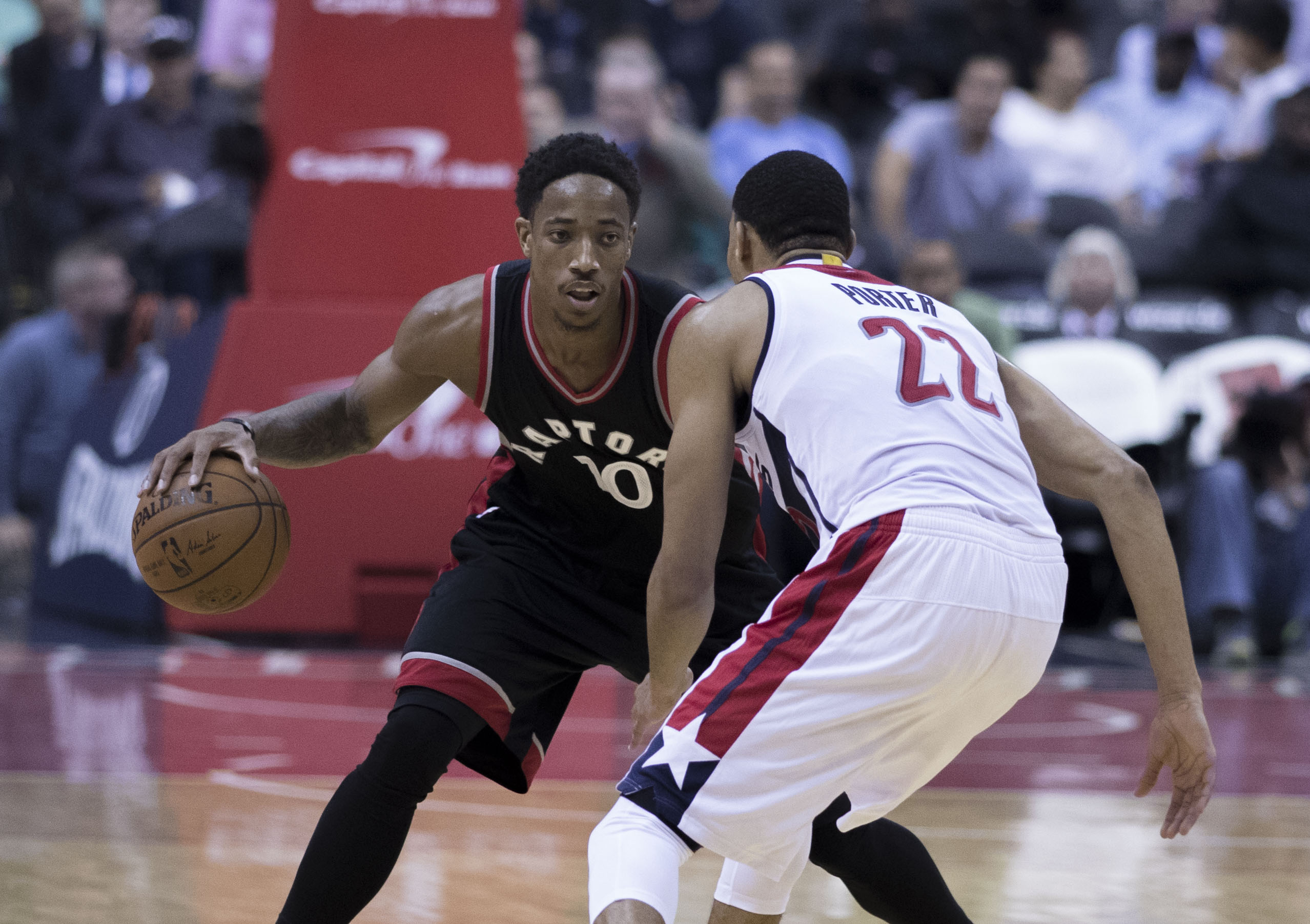 DeMar DeRozan of the Toronto Raptors during a game against the Washington Wizards on November 2, 2016 at Verizon Center in Washington, DC.